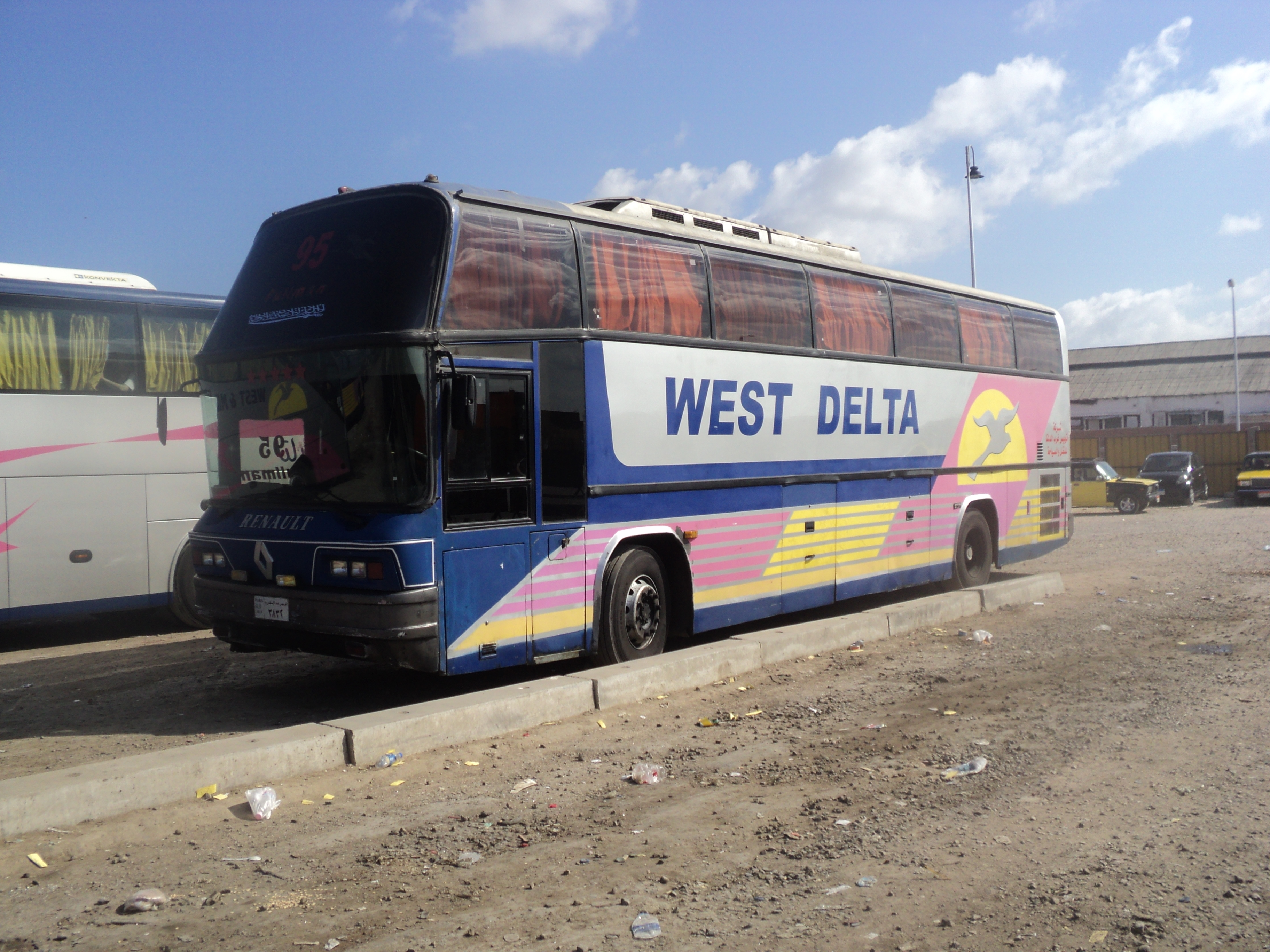 A West Delta bus in Alexandria's Bus station (El Maw'af El Gedid) at Moharem Bey.